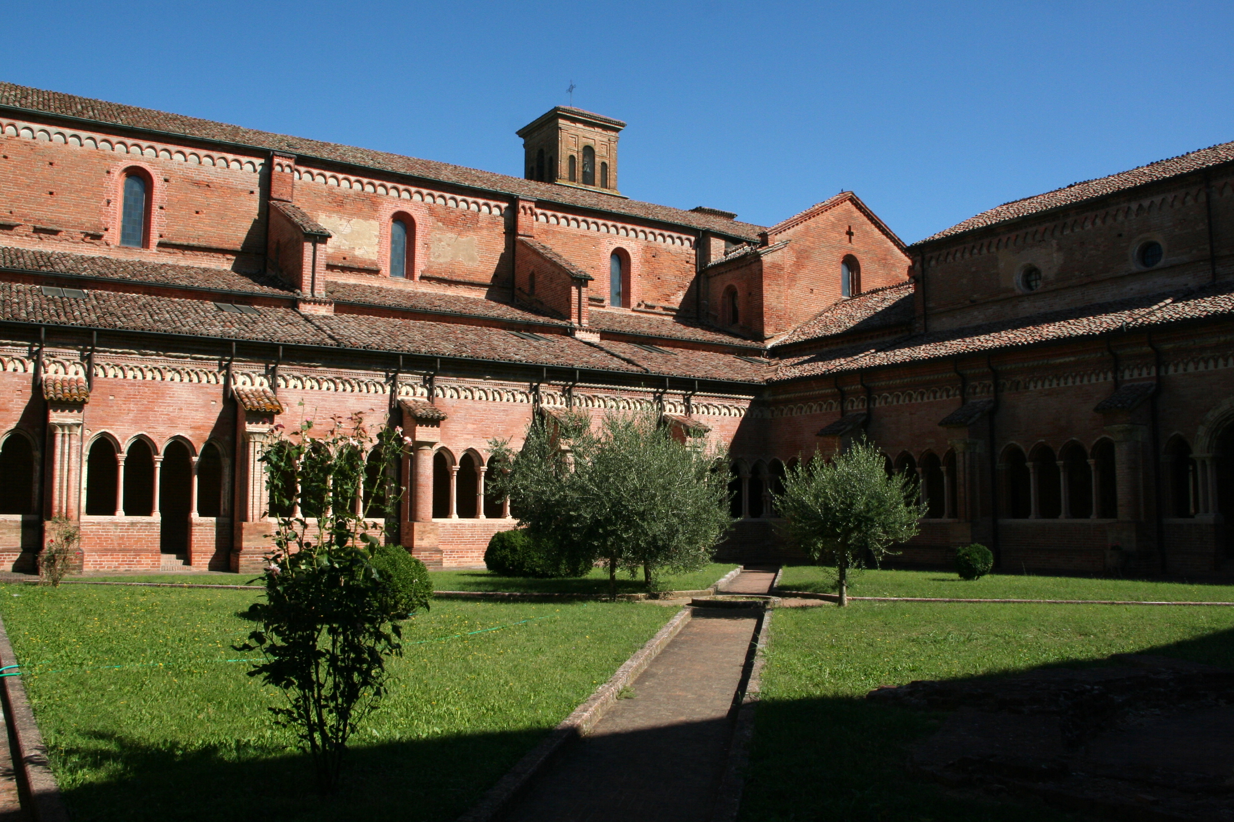 Cloister, 13th century date QS:P,+1250-00-00T00:00:00Z/7 - 14th century date QS:P,+1350-00-00T00:00:00Z/7 Chiaravalle della Colomba Abbey Native nameAbbazia di Chiaravalle della ColombaLocationAlseno, ItalyCoordinates44° 55′ 34″ N, 9° 58′ 25″ E Established1136Web page control : Q477225 VIAF: 135318554 LCCN: nr96029859 WorldCat institution QS:P195,Q477225